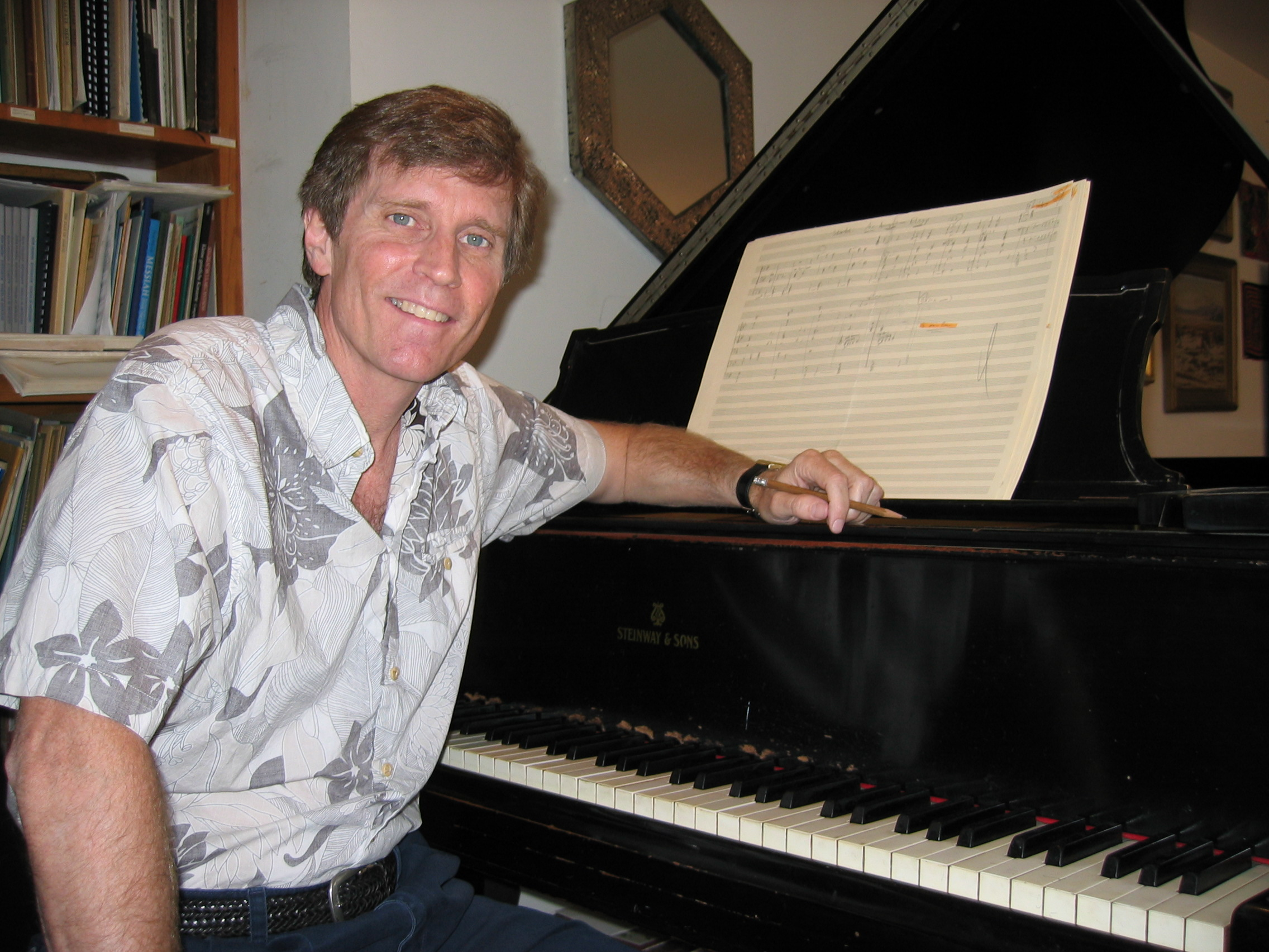 Frank Ticheli sitting at a piano. Photo was taken by Frank Ticheli using the camera's self-timer.